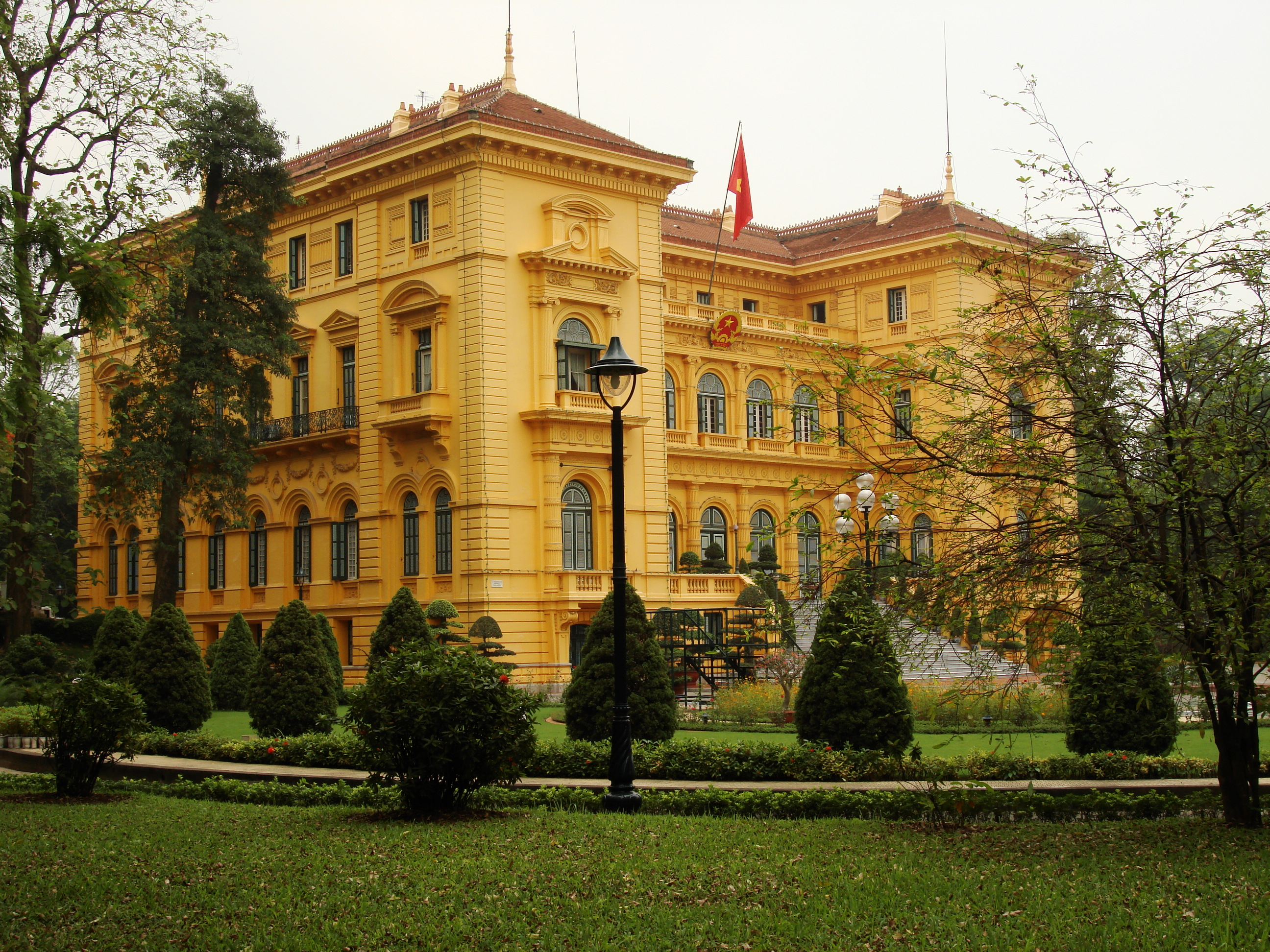 The Presidential Palace of Vietnam, located in the city of Hanoi, was built between 1900 and 1906 to house the French Governor-General of Indochina. It was constructed by Auguste Henri Vildieu, the official French architect for Vietnam. Like most French colonial architecture, the palace is pointedly European- the only visual cues that it is located in Vietnam at all are mango trees growing on the grounds. The striking yellow palace stands behind wrought iron gates flanked by sentry boxes. It incorporates elements of Italian Renaissance design, including: * aedicules * a formal piano nobile reached by a grand staircase * broken pediments * classical columns * quoins When Vietnam achieved independence in 1954, Ho Chi Minh refused to live in the grand structure for symbolic reasons, although he still received state guests there, and he eventually built a traditional Vietnamese stilt house and carp pond on the grounds. Today, Ho Chi Minh's Mausoleum stands nearby and the Presidential Palace remains part of Hanoi's cultural core. The palace hosts government meetings. It is not open to the public, although one may walk around the grounds for a fee.